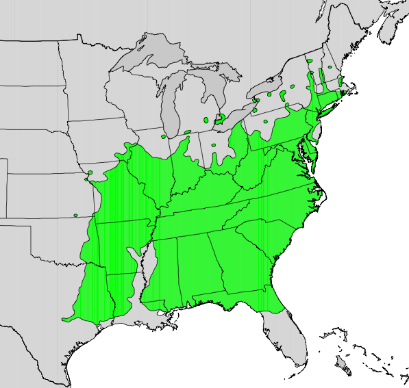 Range map of Carya tomentosa